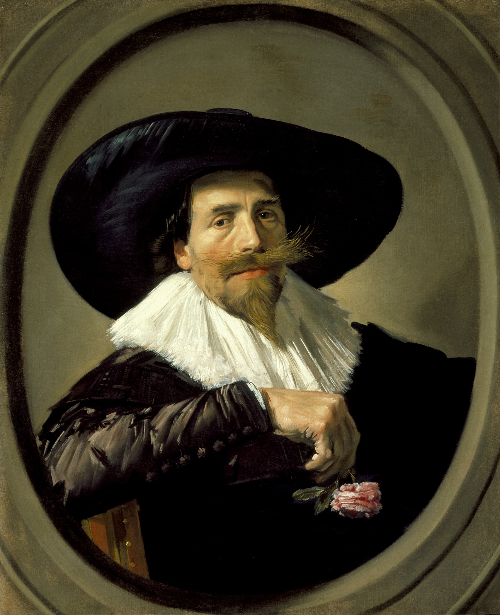 Holland, circa 1635-1638 Paintings Oil on canvas 33 9/16 x 27 1/5 in. (85.25 x 69.09 cm) Gift of The Ahmanson Foundation (M.74.31) European Painting Currently on public view: Ahmanson Building, floor 3